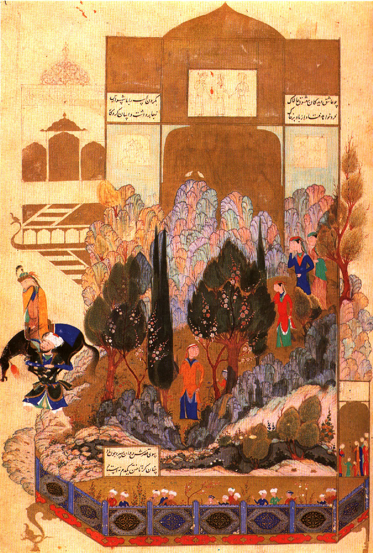 Ferhad carries Shirin on his Shoulders Khamsa. Tabriz